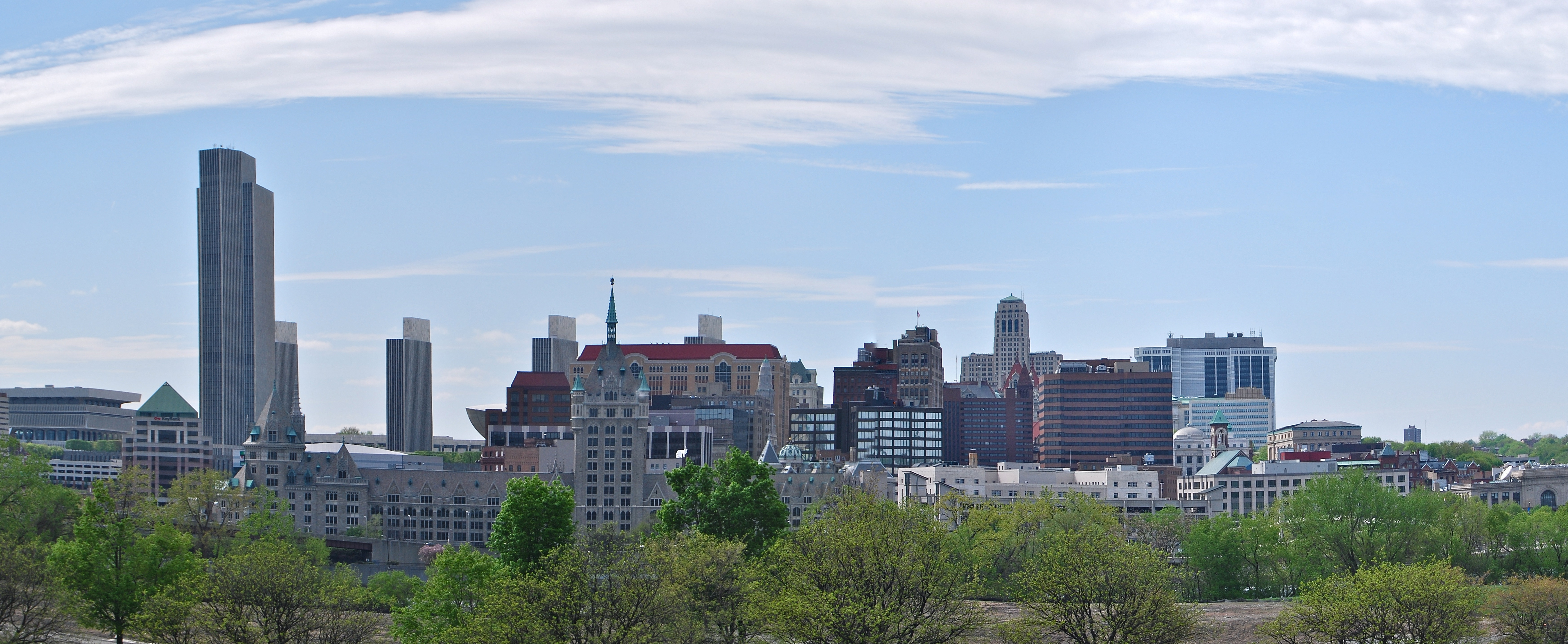 Skyline of Albany, New York, United States from across the Hudson River